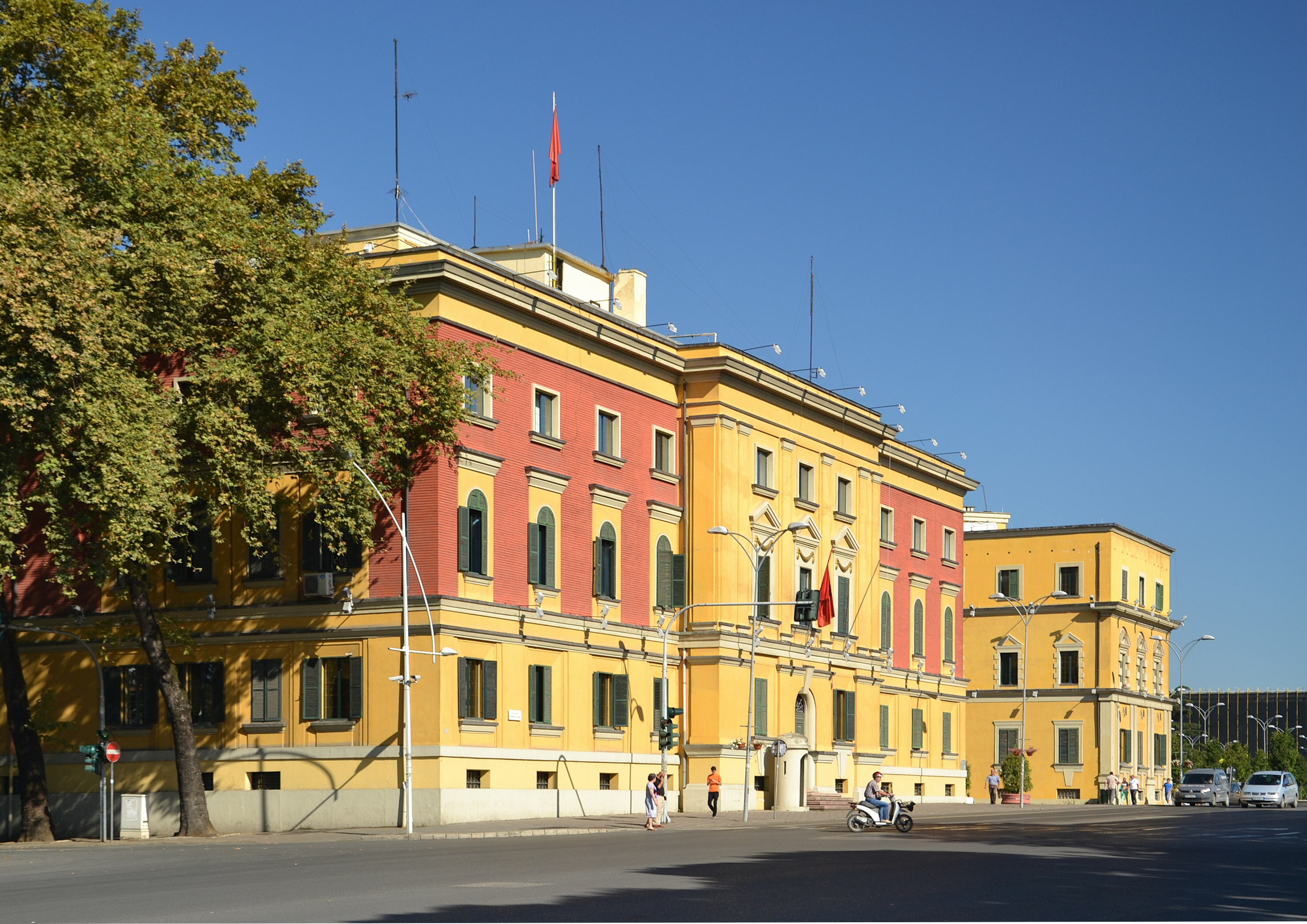 The Ministry of Defence and MAFCP, Tirana, Albania